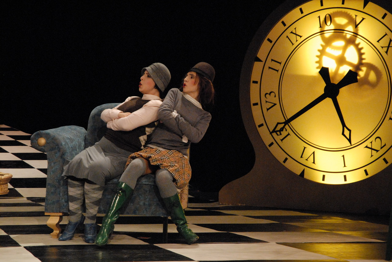 "The Bald Soprano", play by Eugène Ionesco, directed by Jelena Balašević; Drama of the SNT, Novi Sad, 2009/10; Tanja Pjevac, Jovana Balašević Srpski (latinica): "Ćelava pevačica", napisao Ežen Jonesko u režiji Jelene Balašević; Drama SNP-a, Novi Sad, 2009/10; Tanja Pjevac, Jovana Balašević Српски (ћирилица): "Ћелава певачица", написао Ежен Јонеско у режији Јелене Балашевић; Драма СНП-а, Нови Сад, 2009/10; Тања Пјевац, Јована Балашевић